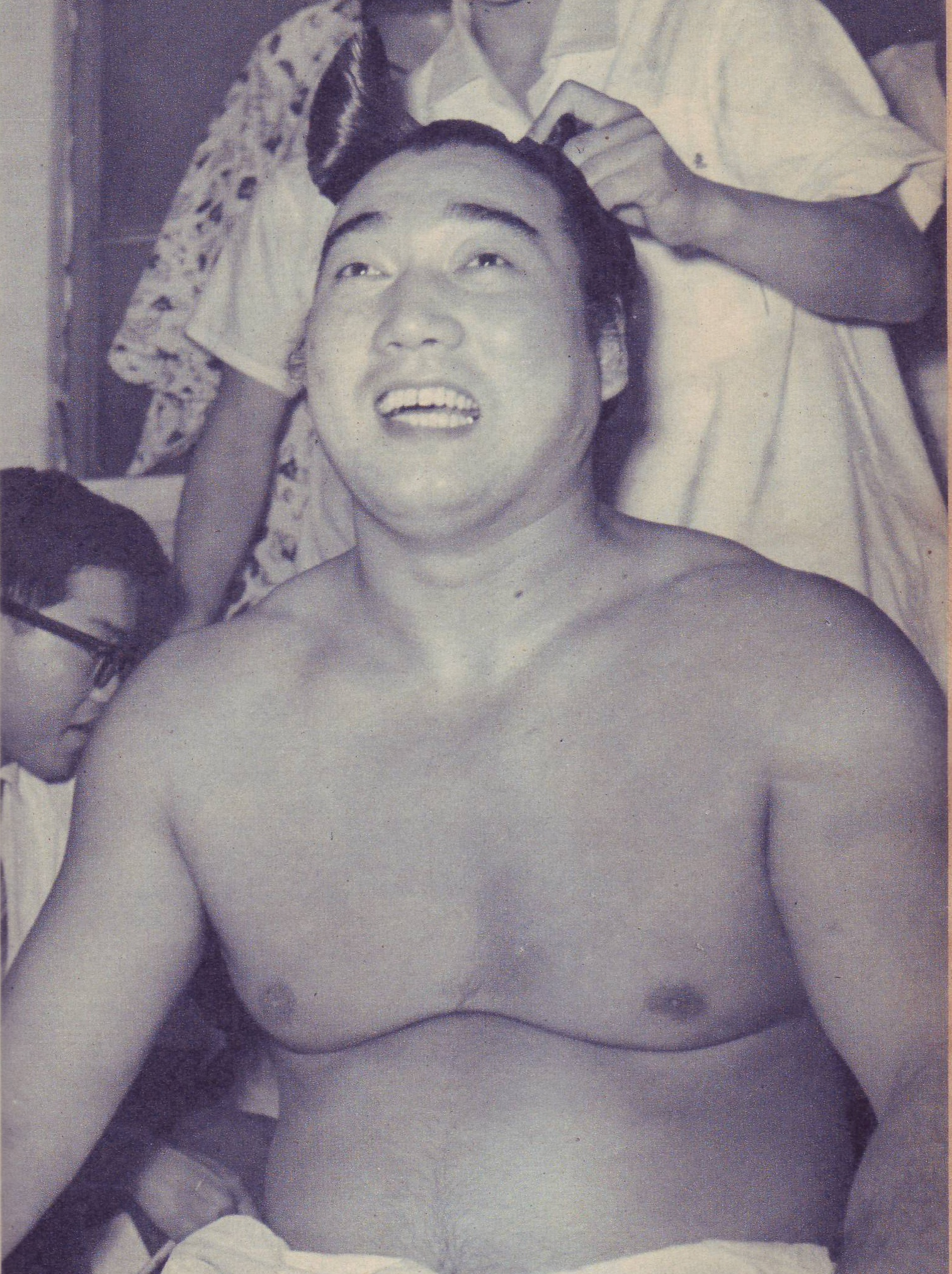 Kashiwado Tsuyoshi (taken in 1961, or before that).